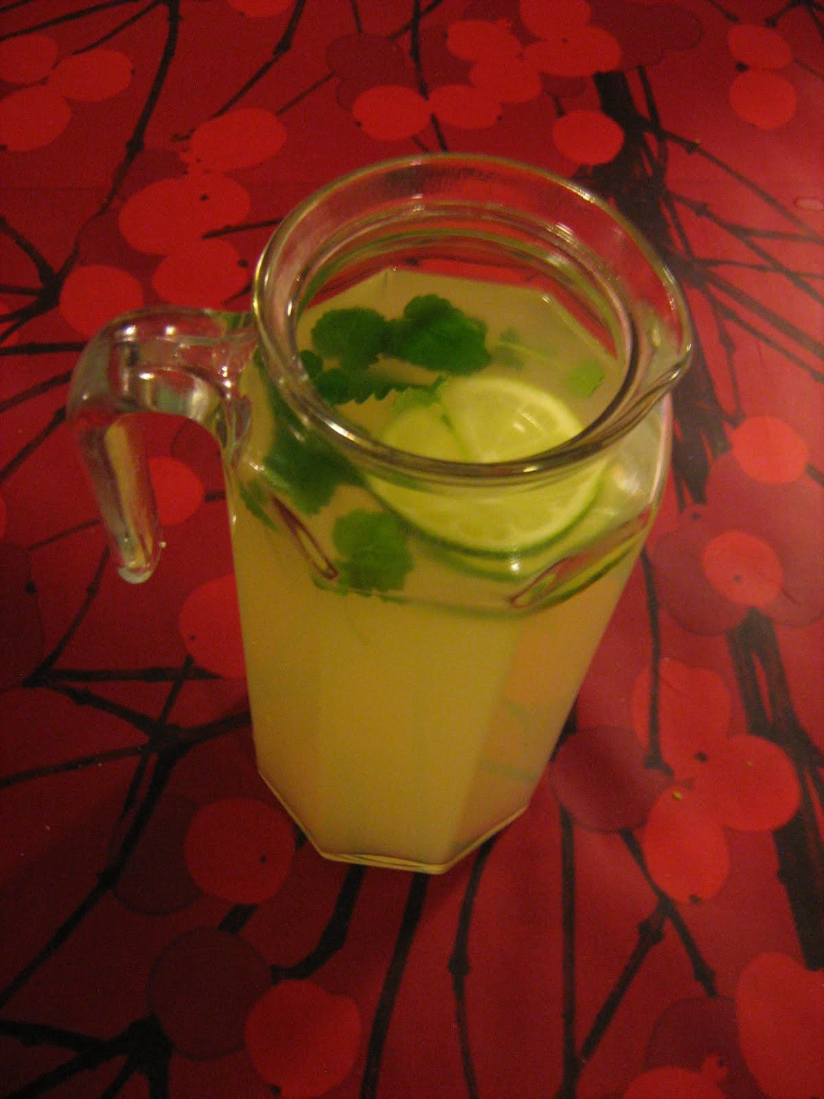 Whey wine (See more at the blog post here:).